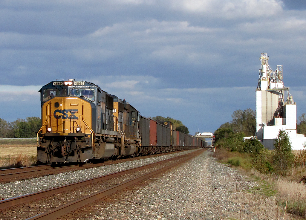 A loaded CSX coke train flies across the open fields of Northern Indiana near Milford Jct.